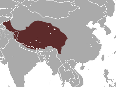 Woolly Hare (Lepus oiostolus) range